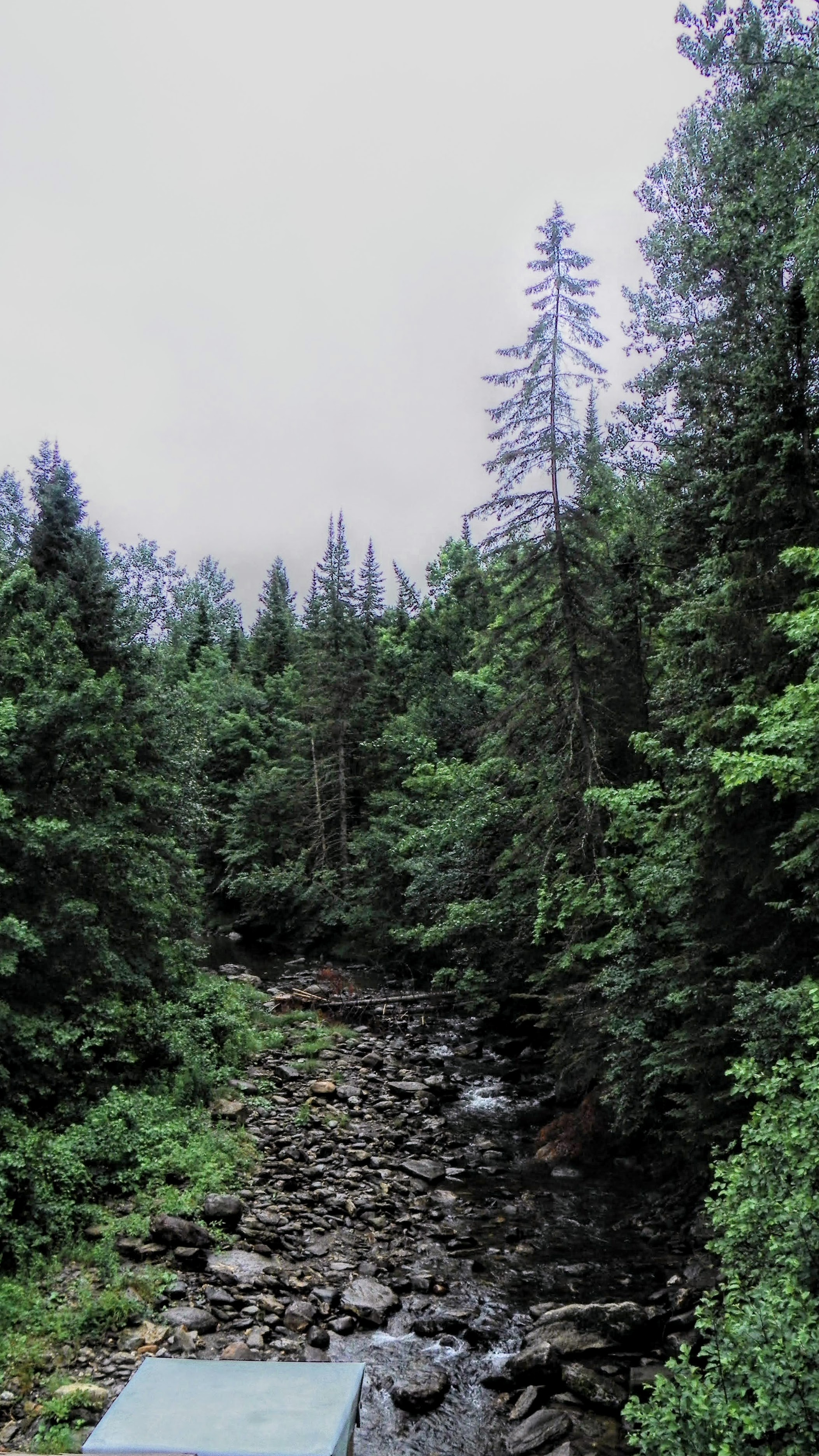 Beaurivage river near Sainte-Marguerite mountain in Saint-Séverin, Québec.